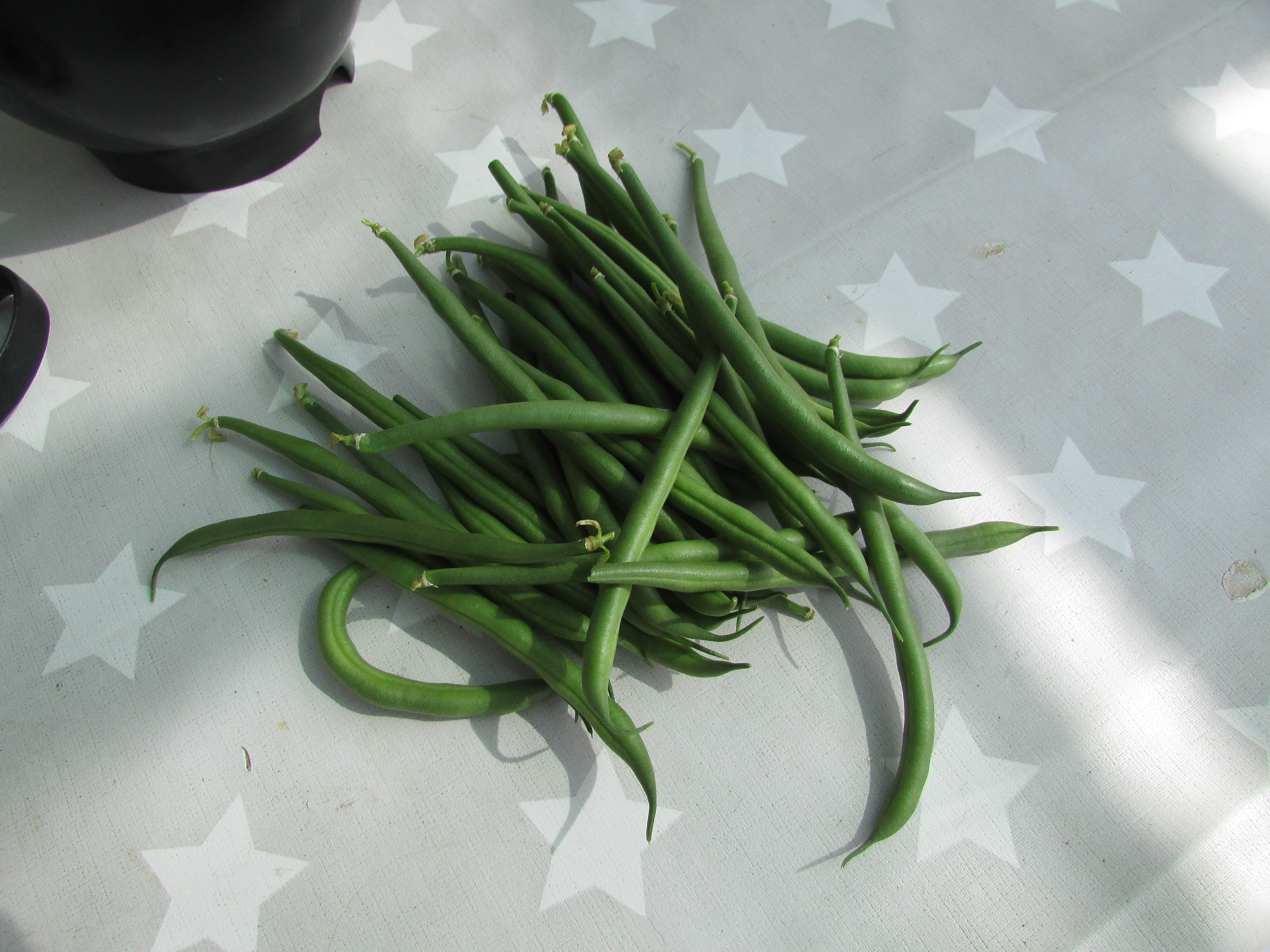 A harvest of French beans (Phaseolus vulgaris) grown in the city of Albufeira, Algarve, Portugal.